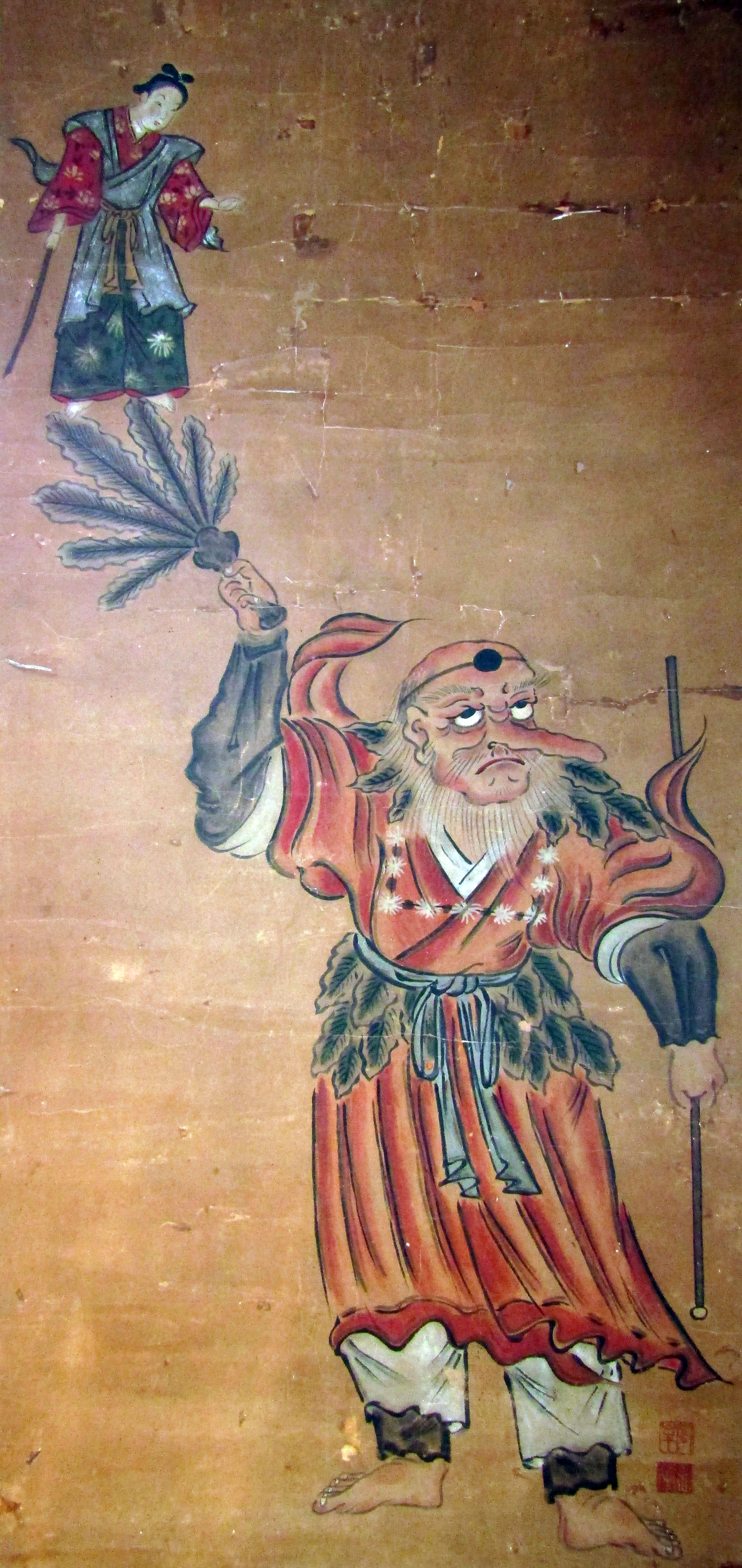 Tengu Sōjōbō teaching Minamoto no Yoshitsune the art of sword fighting. Japanese scroll, late Edo period (own collection)